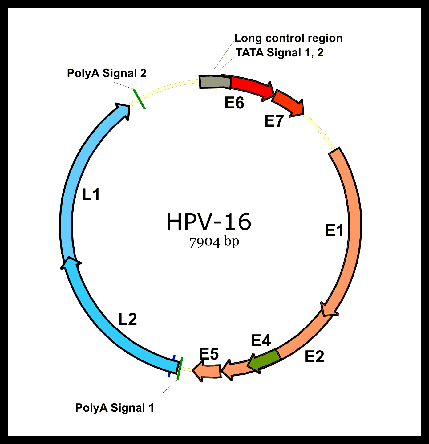 Genomic structure of Human papillomavirus HPV